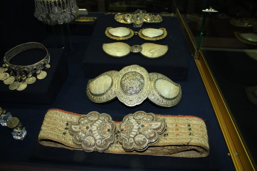 Museum of Macedonia_118 An artefact in the Ethnological section of the Museum of Macedonia, Skopje.